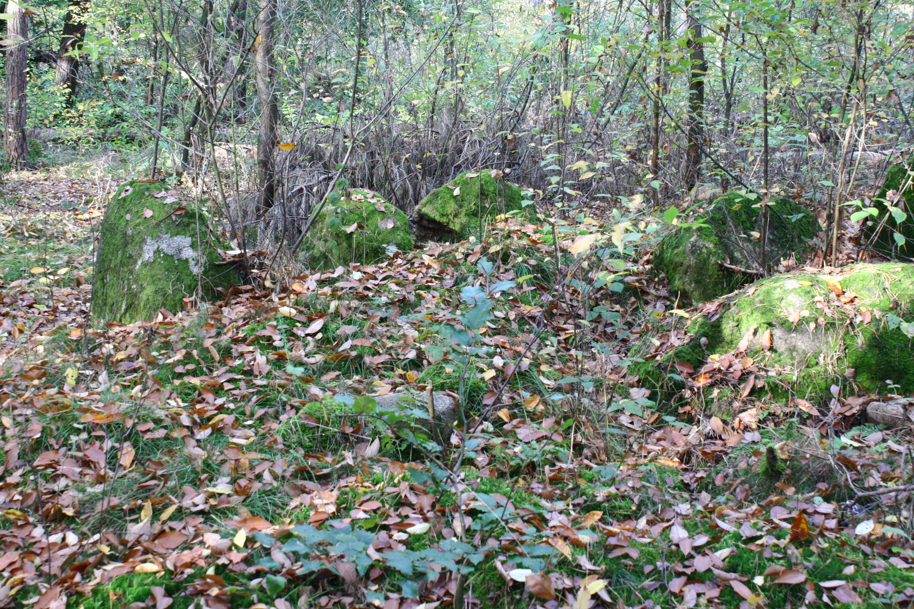 Megalithic tomb Haldensleben II 24